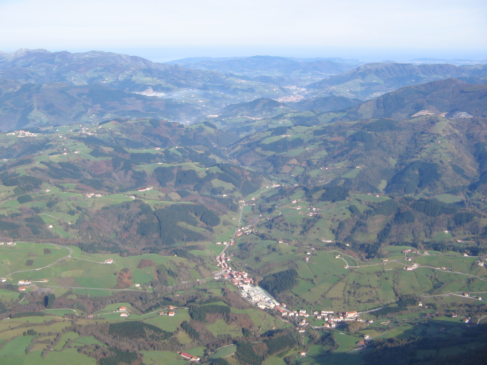 A view of Amezketa, the Oria valley, Hernio top left and a glimpse of San Sebastián and the Bay of Biscay in the far background, in Gipuzkoa, Basque Country of Spain